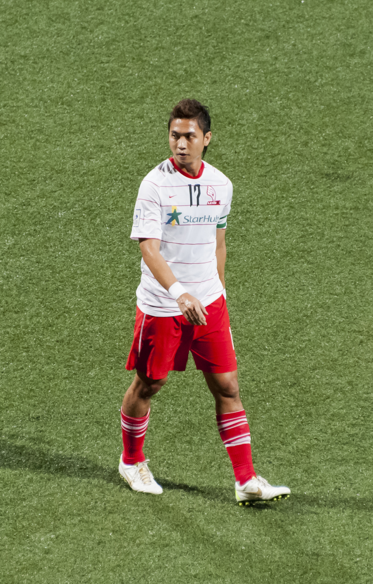 shahril ishak singapore lionsxii jalan besar stadium kelantan fa malaysia super league 2012